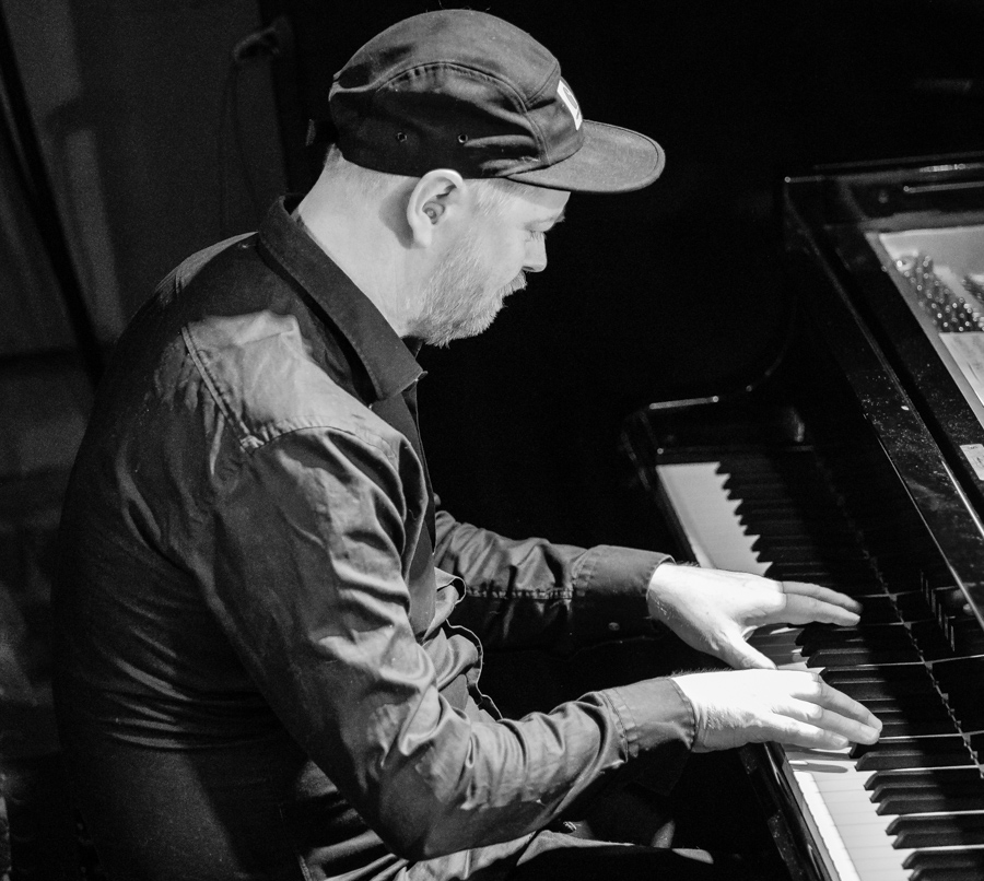 Håvard Wiik in a concert with Trondheim Jazz Orchestra + Atomic in Energimølla. The concert was part of Kongsberg Jazzfestival and took place on 03. July 2019 in Kongsberg. Lineup:Magnus Broo (trumpet)Fredrik Ljungkvist (saxophone and clarinet)Håvard Wiik (piano)Ingebrigt Håker Flaten (double bass)Hans Hulbækmo (drums)Signe Krunderup Emmeluth (alto saxophone)Per Texas Johansson (tenor saxophone)Hild Sofie Tafjord (french horn)Ole Jørgen Melhus (trombone)Ola Kvernberg (violin)Lene Grenager (cello)Kyrre Laastad (drums and percussion)